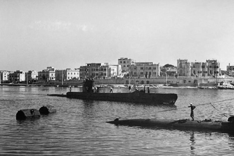 IWM caption : HMS UNRUFFLED returning to harbour in Malta after a patrol in the Mediterranean where she supported the Allied victories in North Africa, Sicily and Italy. During the campaigns, the Ship's Company were awarded a DSO and bar, three DSCs, eleven DSMs and were Mentioned in Despatches on six occasions. Success on her "Jolly Roger"indicates the sinking of 12 supply ships totalling 40,000 tons, three supply schooners, the disabling of an Italian cruiser disabled and a train shot up.